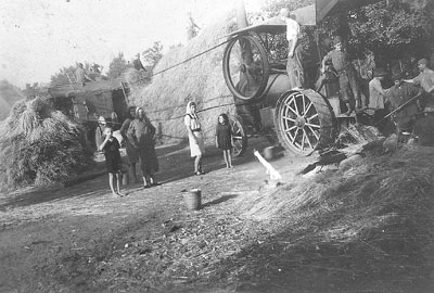 Lok